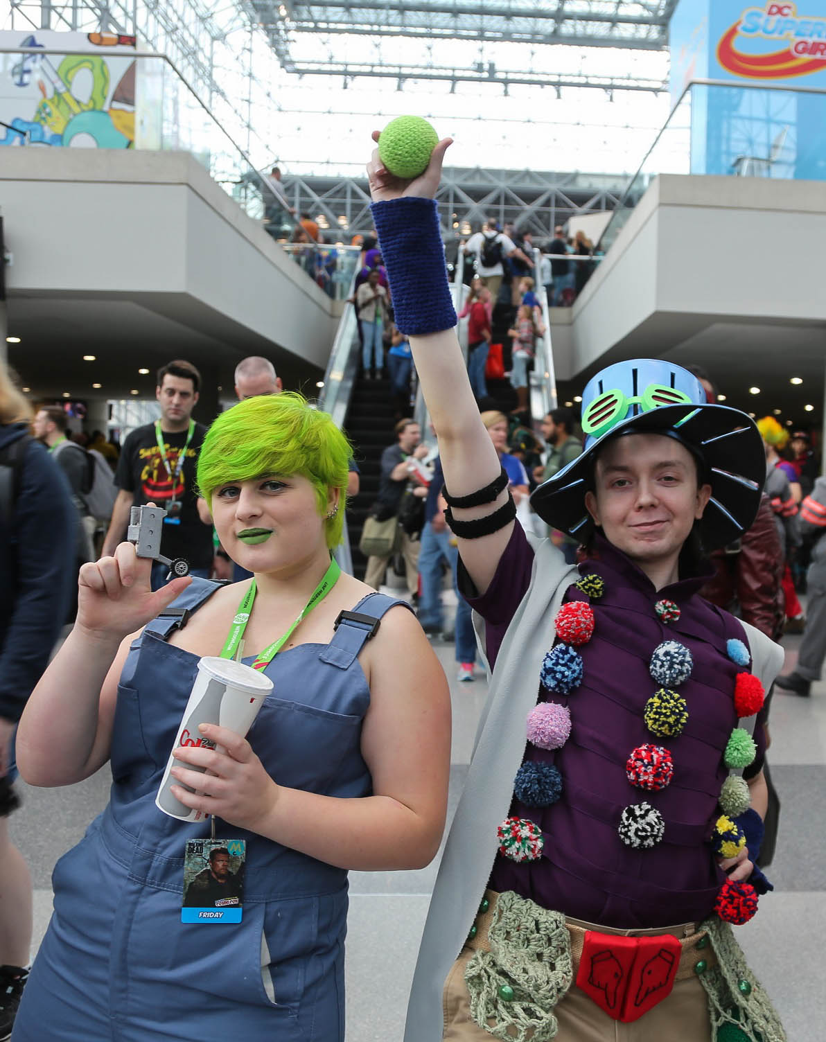 New York Comic Con 2015 - Foo Fighters & Gyro Cosplay at the 2015 New York Comic Con (NYCC 2015).